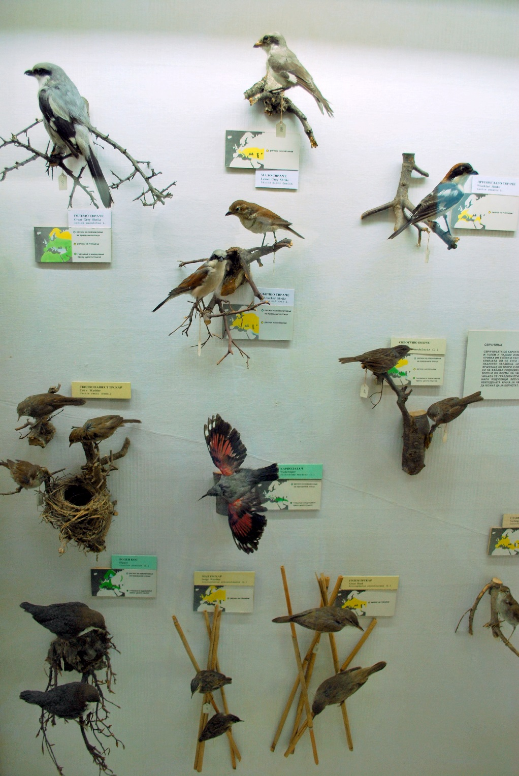 A bird collection in the Macedonian Museum of Natural History in Skopje, Macedonia